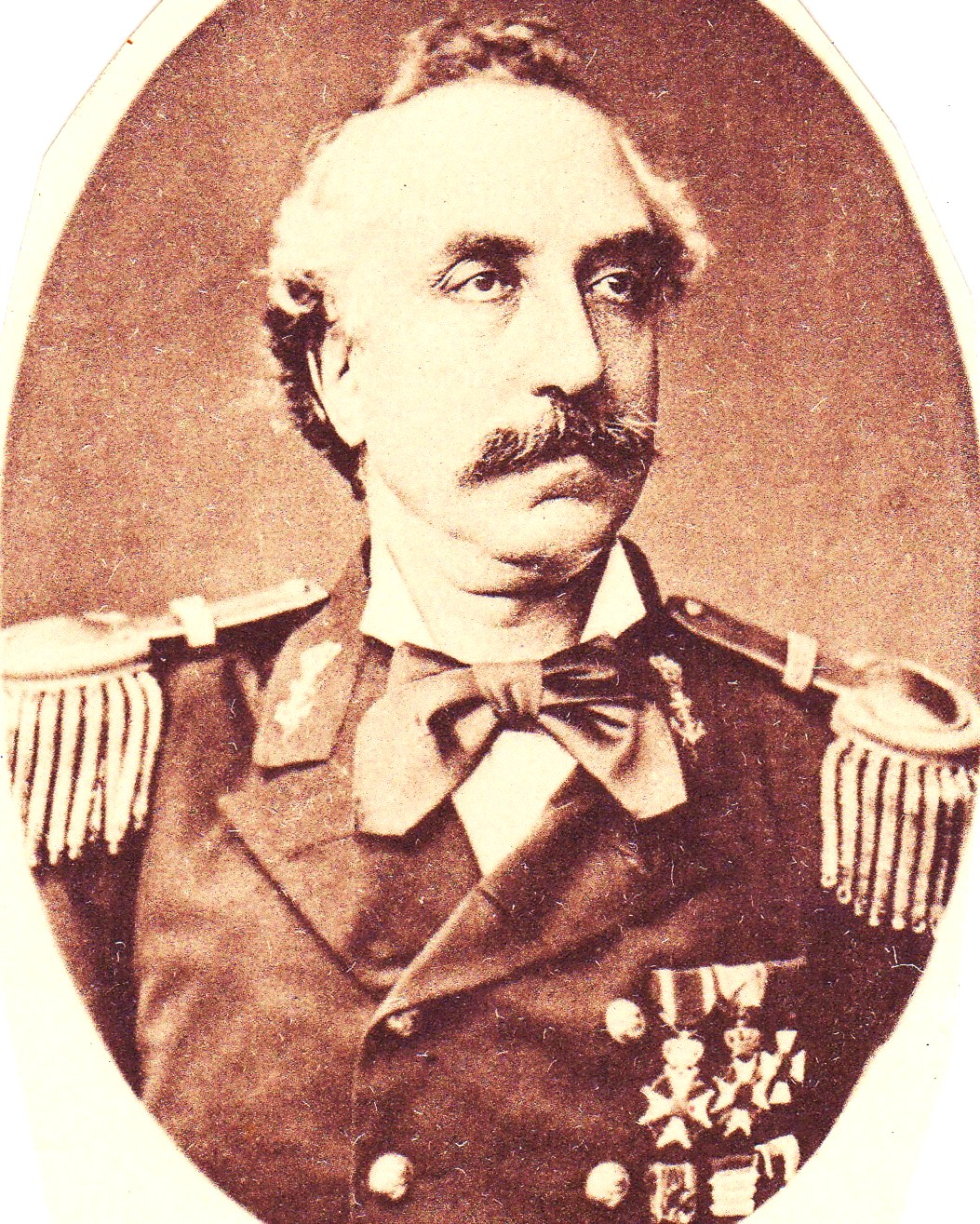 Van der Hegge Spies